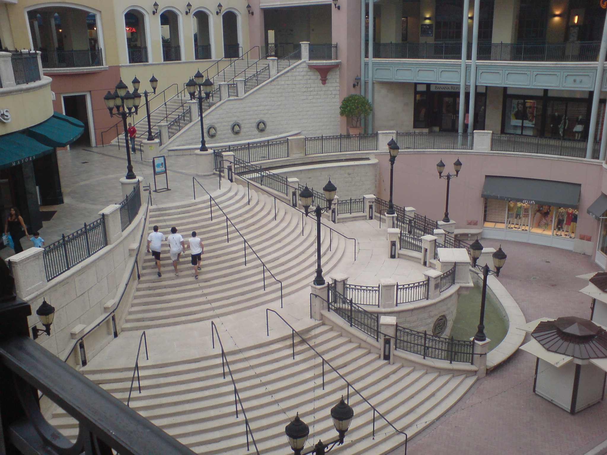 Shot of The Shops at Sunset Place main staircase